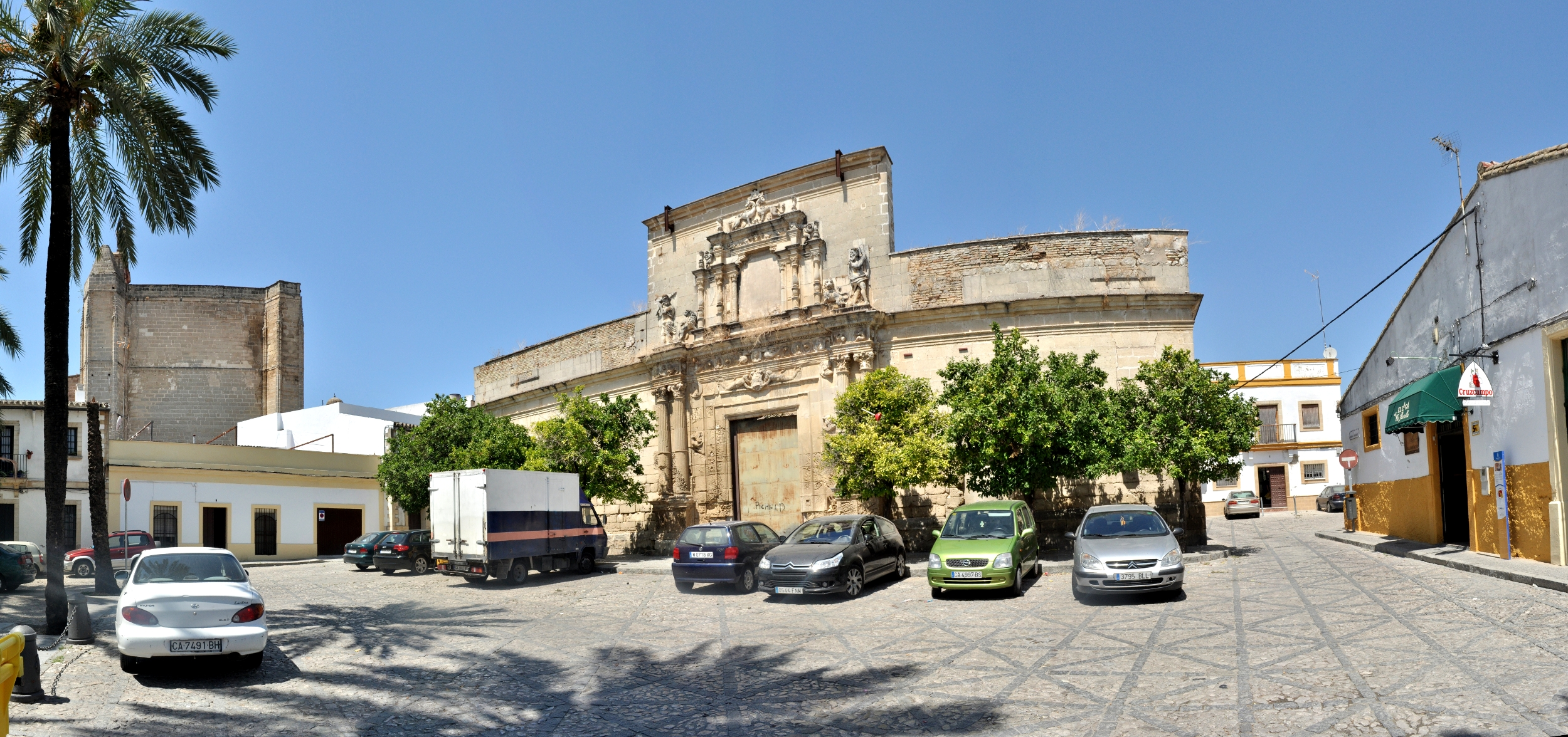 Riquelme Palace, Panorama Mercado Square